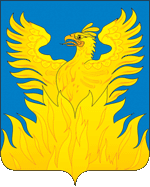 Voskresensk (Moscow oblast), coat of arms (2008)